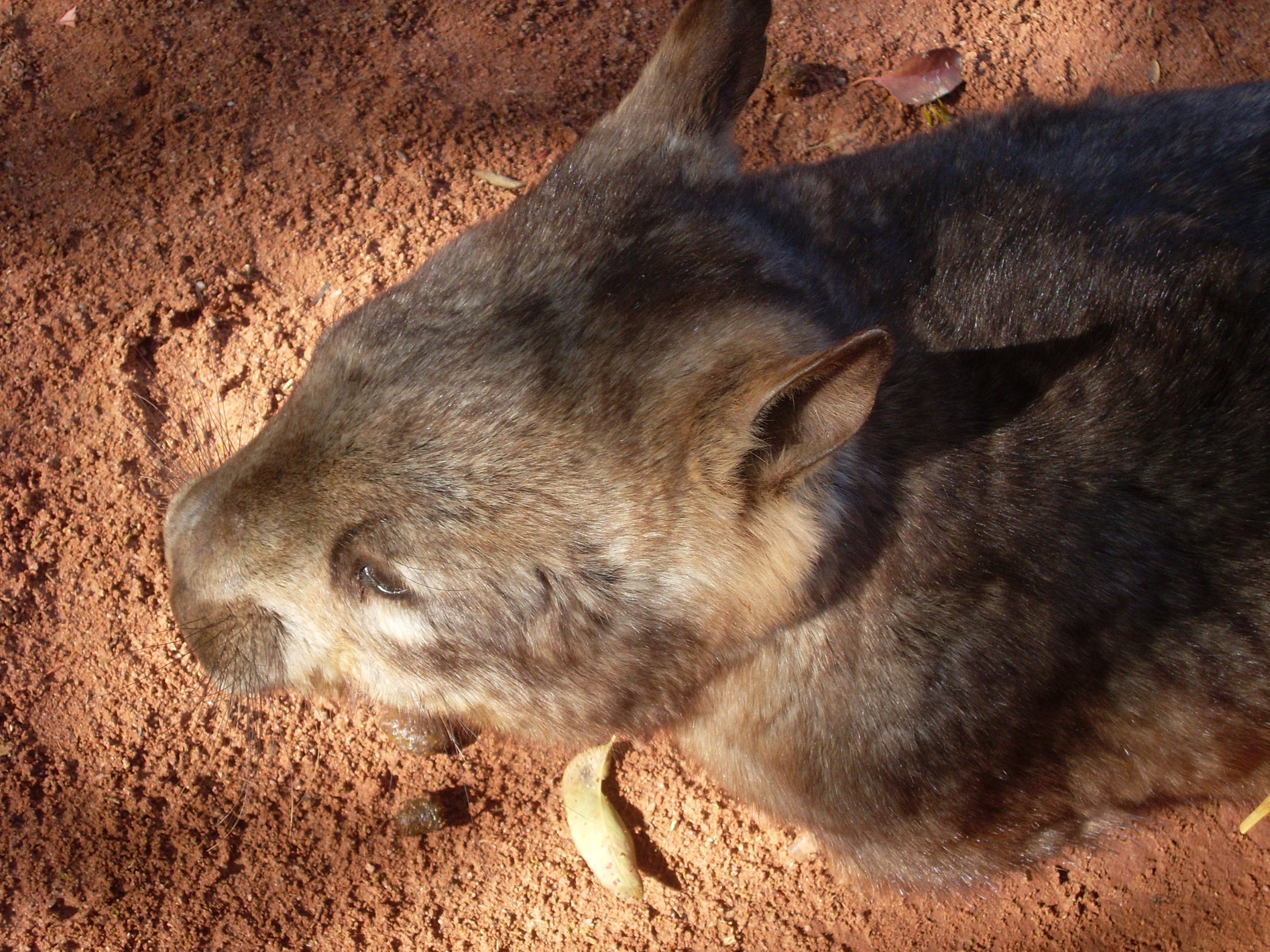 Looks cute and cuddly, but I wouldn't put your fingers in there to stroke him!